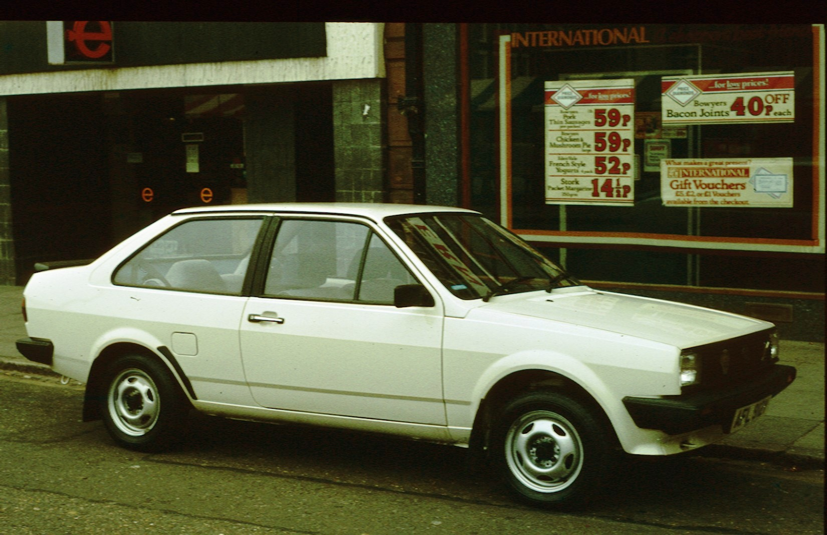 Volkswagen Derby outside the International Stores in Cambridge, England